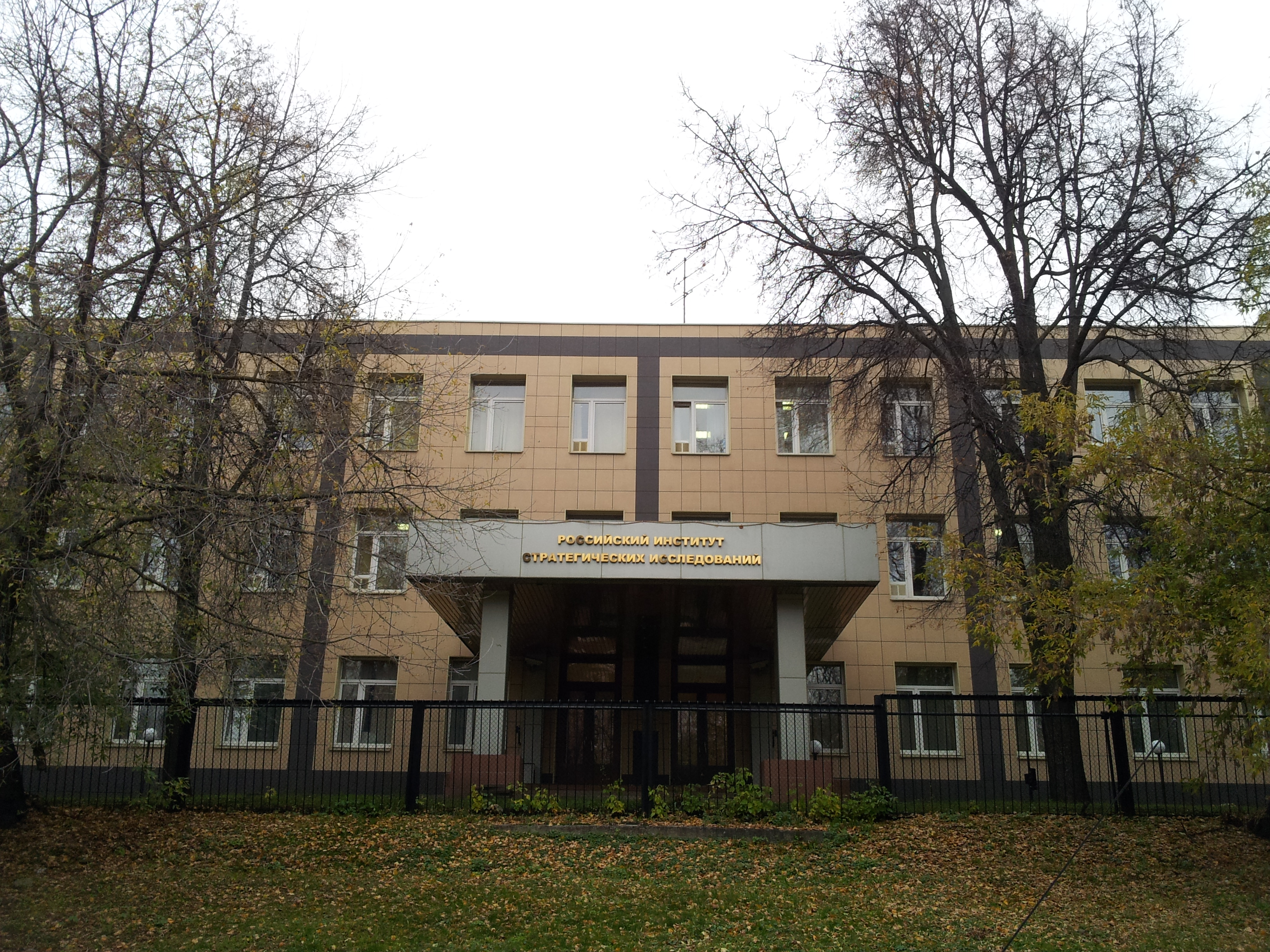 Russian Institute for Strategic Studies